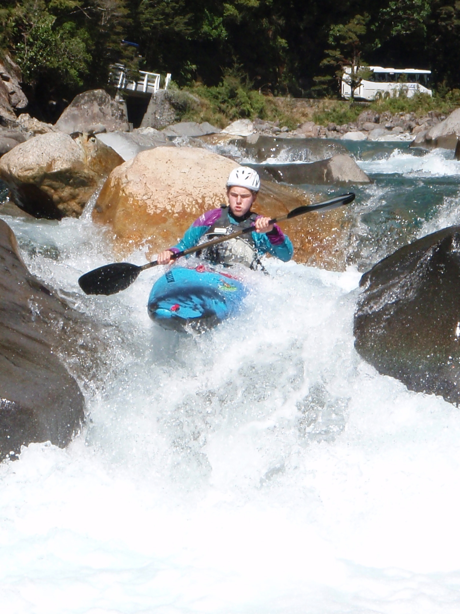 Photo of Kayaker on the Hollyford River, with the Falls Creek Bridge of the Milford Road in the background.